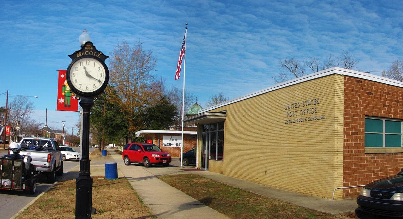 Post Office and Clock - McColl, South Carolina.